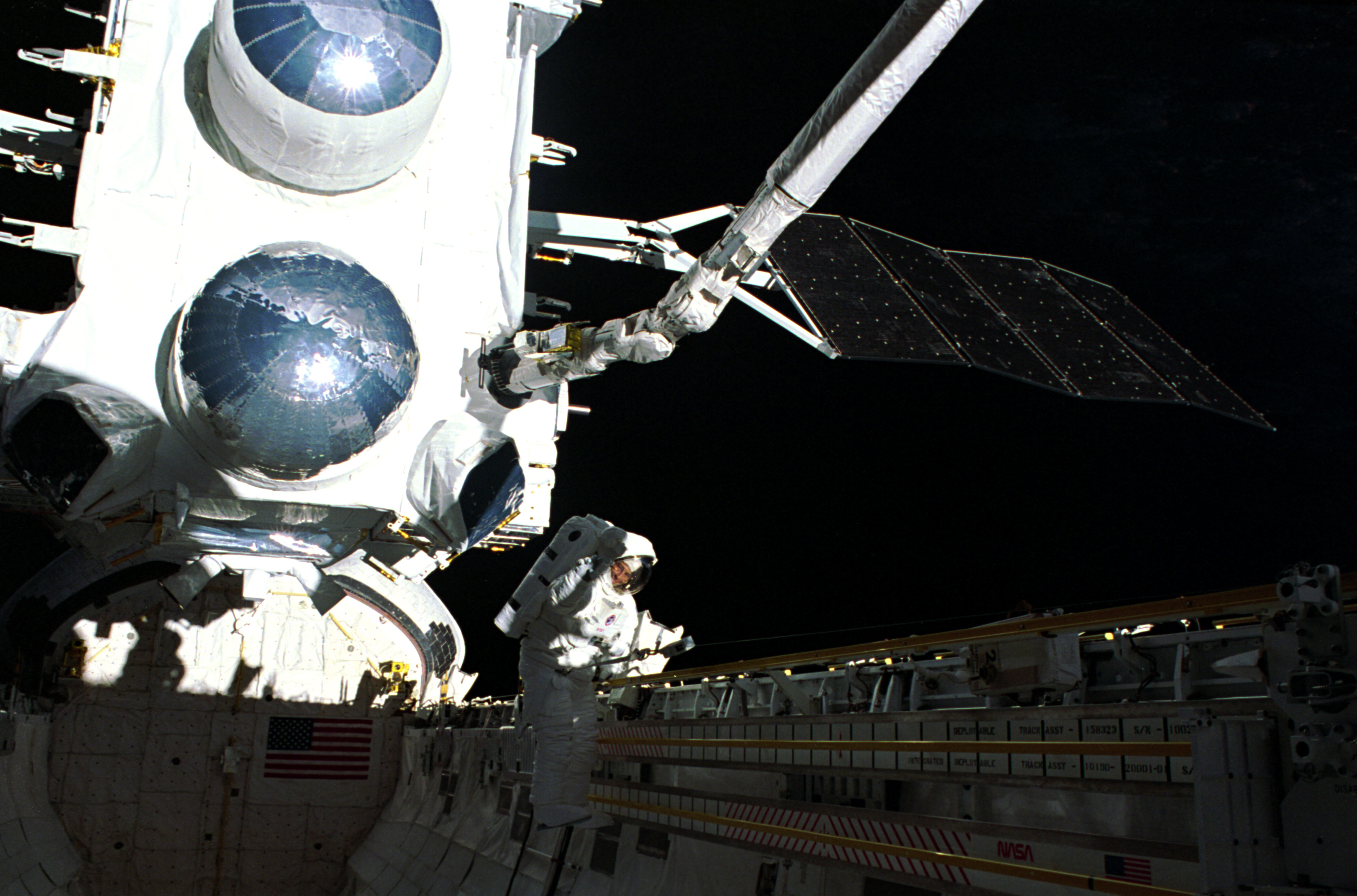 The Compton Gamma Ray Observatory looms over STS-37 Mission Specialist Jay Apt as he works his way along the payload bay of space shuttle Atlantis during the mission's first spacewalk. The unscheduled EVA was needed to free Compton's high-gain antenna, which was stuck in its launch configuration.